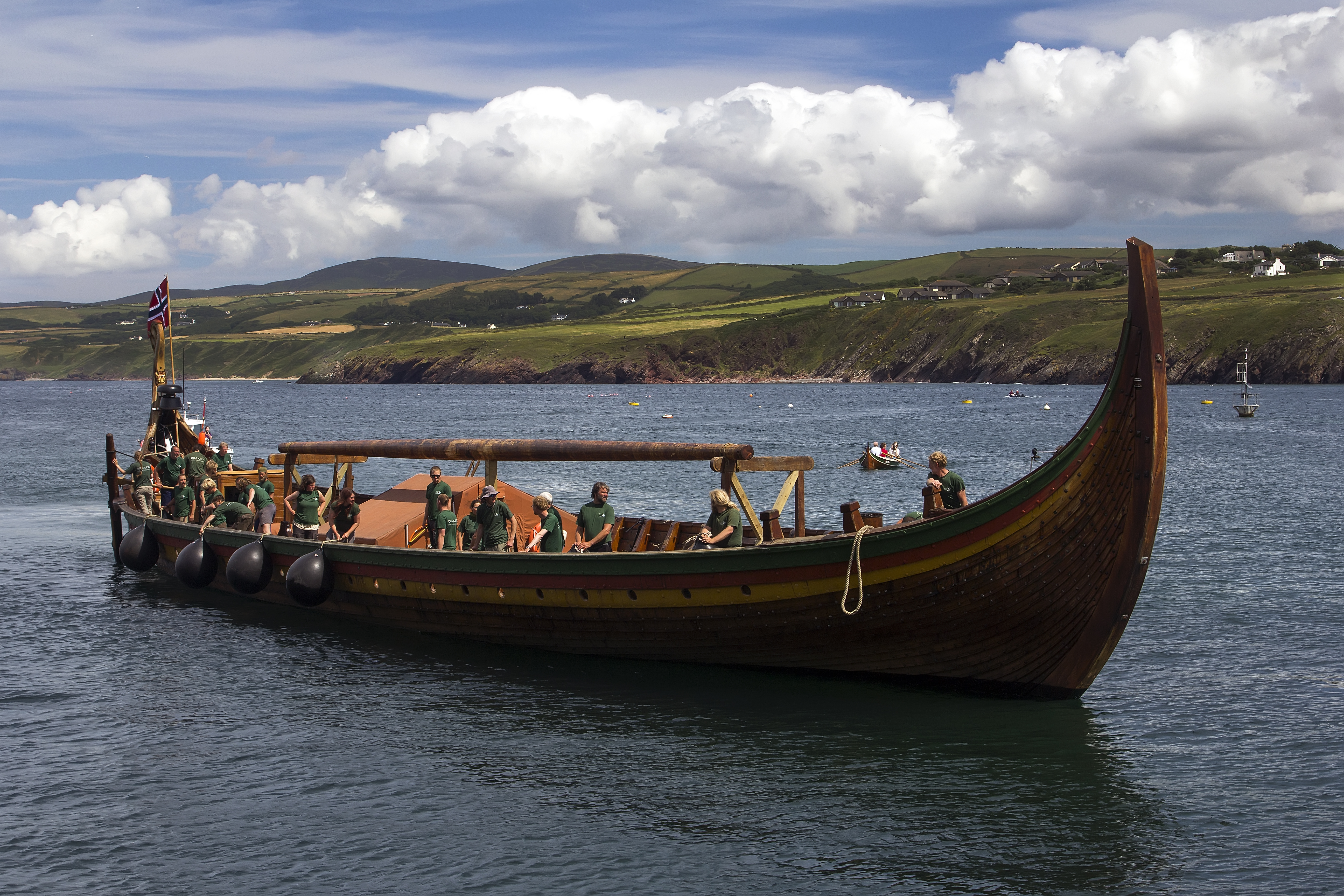 Reproduction Viking longship Draken Harald Hårfagre